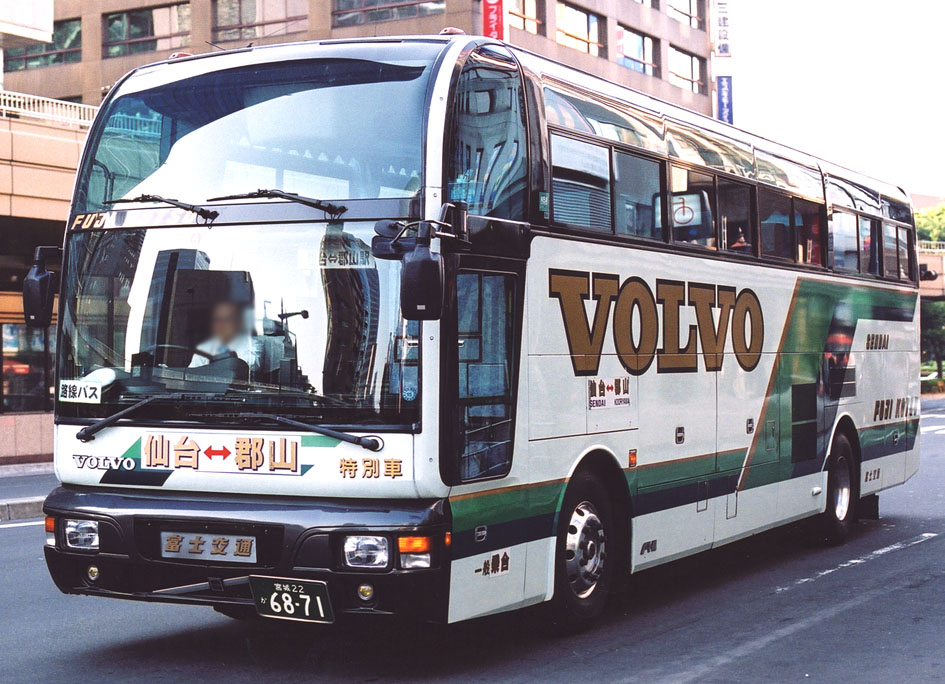 FHI Asterope SHD coach with Volvo B10M chassis in Japan. Teisan Kankō Bus operator.